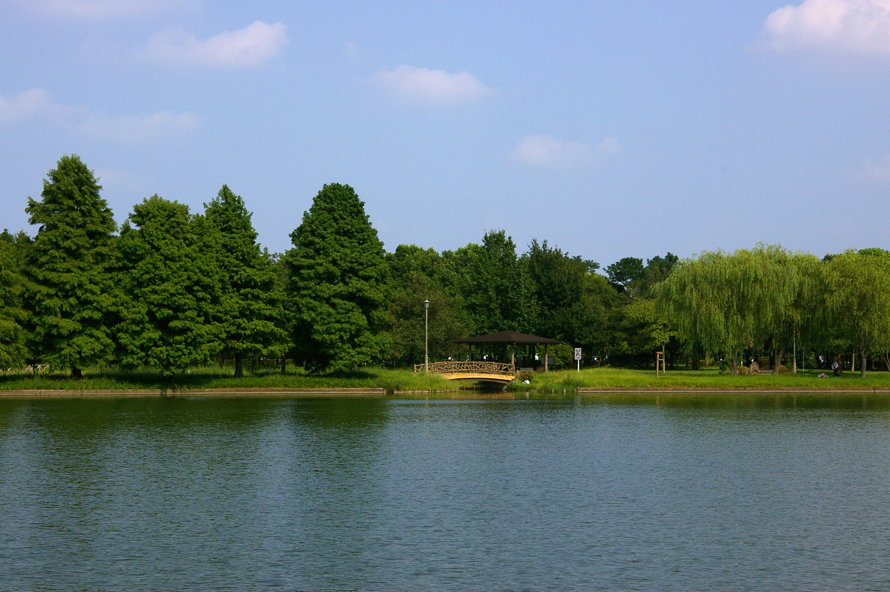 Misato Park in Misato City, Saitama Prefecture, Japan, as seen from the Mizumoto Park